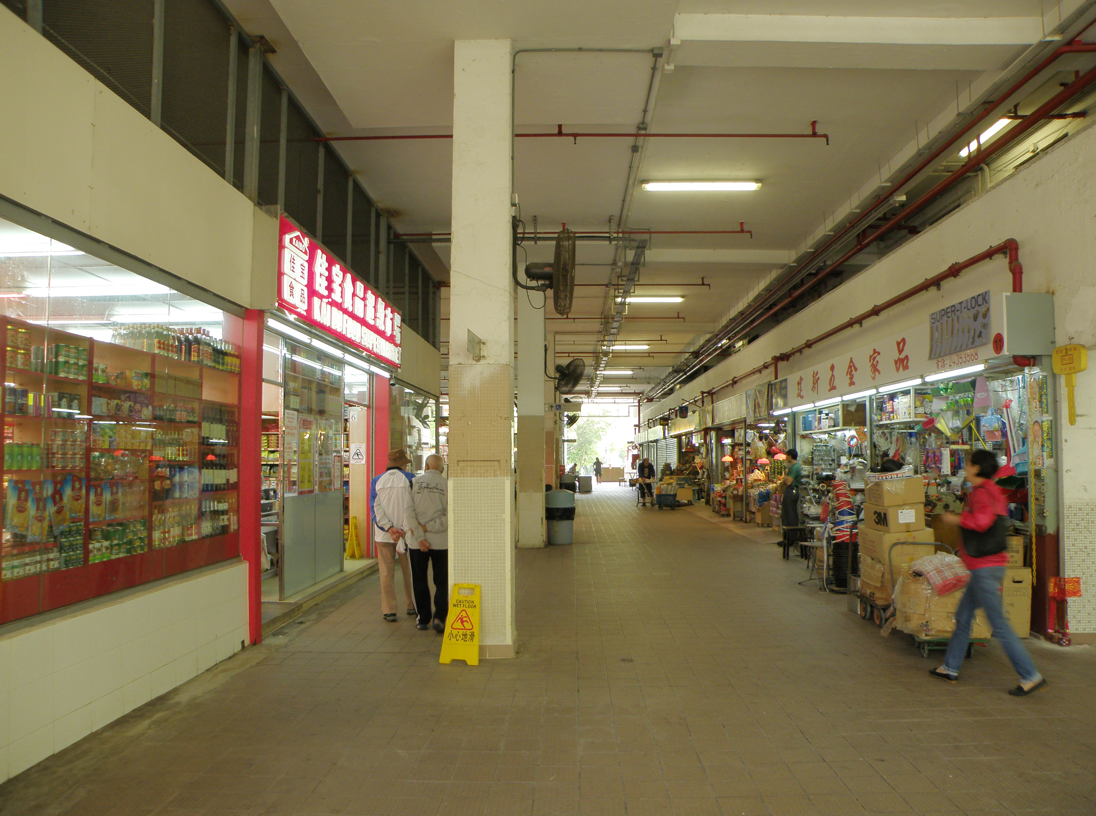 Cheung Ching Market in Tsing Yi, Hong Kong.